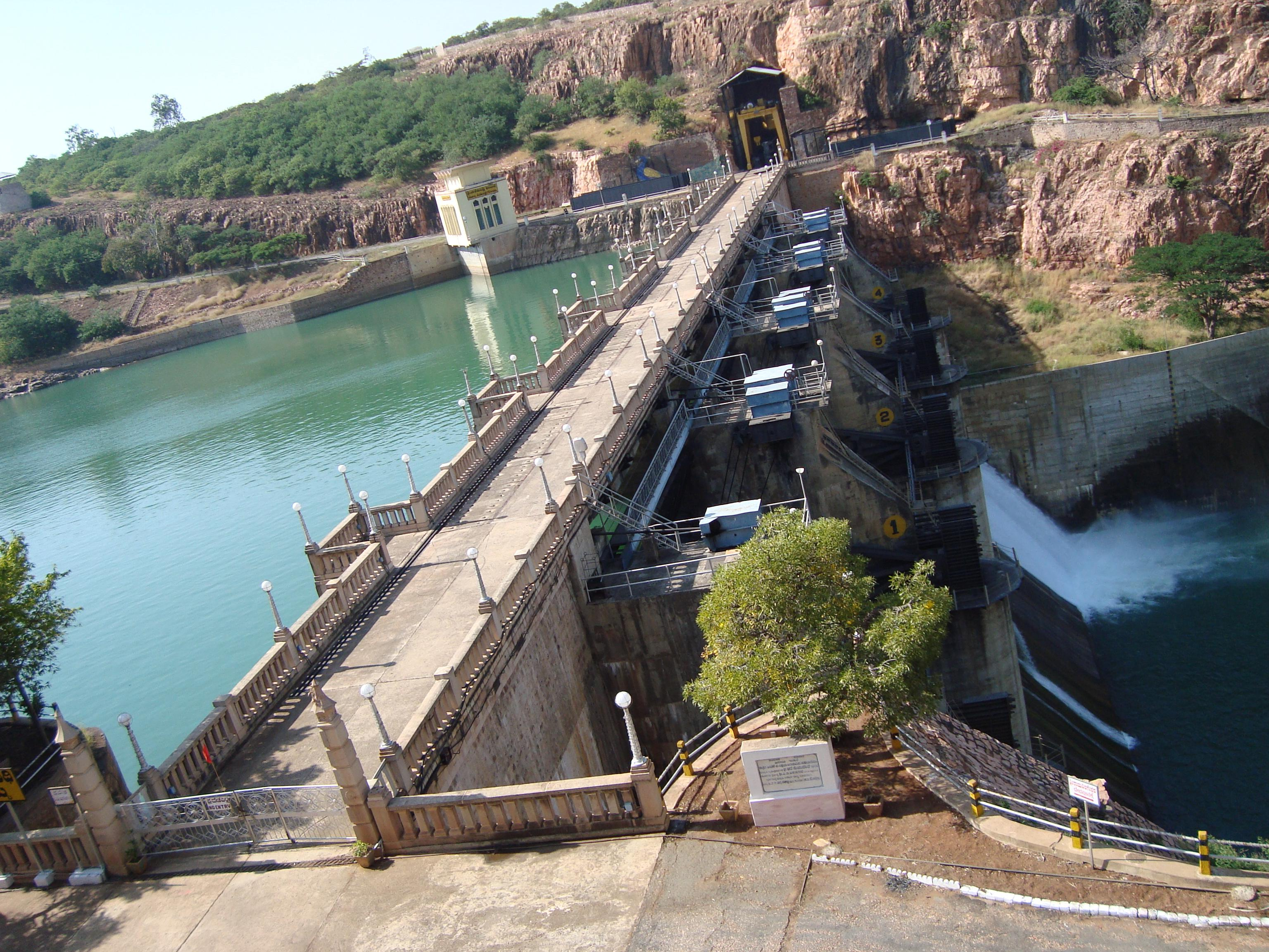 Navilateertha Dam, Savadatti, Renuka sagara Author and Source : Manjunath Doddamani, Gajendragad, Karnataka (North), India